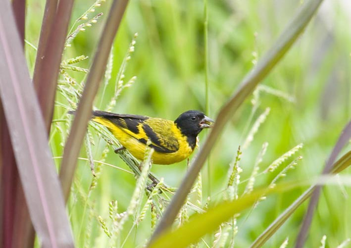 Hooded siskin male (Carduelis magellanica icterica)